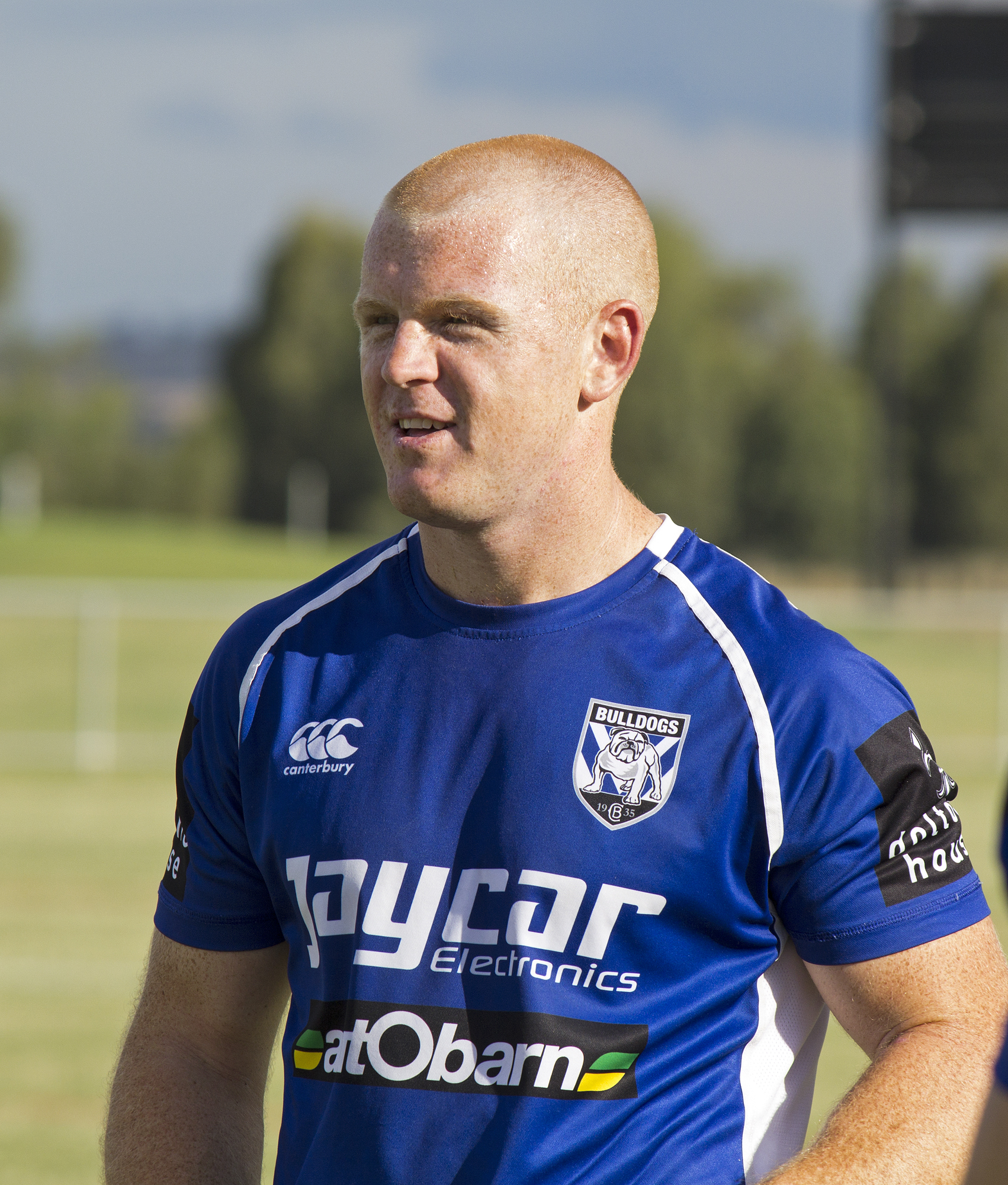 Kris Keating, Bulldogs five-eighth, at McDonald's Park in Wagga Wagga, New South Wales.